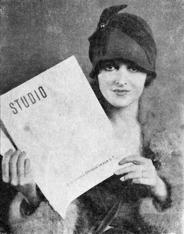 Mary Astor with the first issue of Studio magazine (Aventinum, Prague), 1928